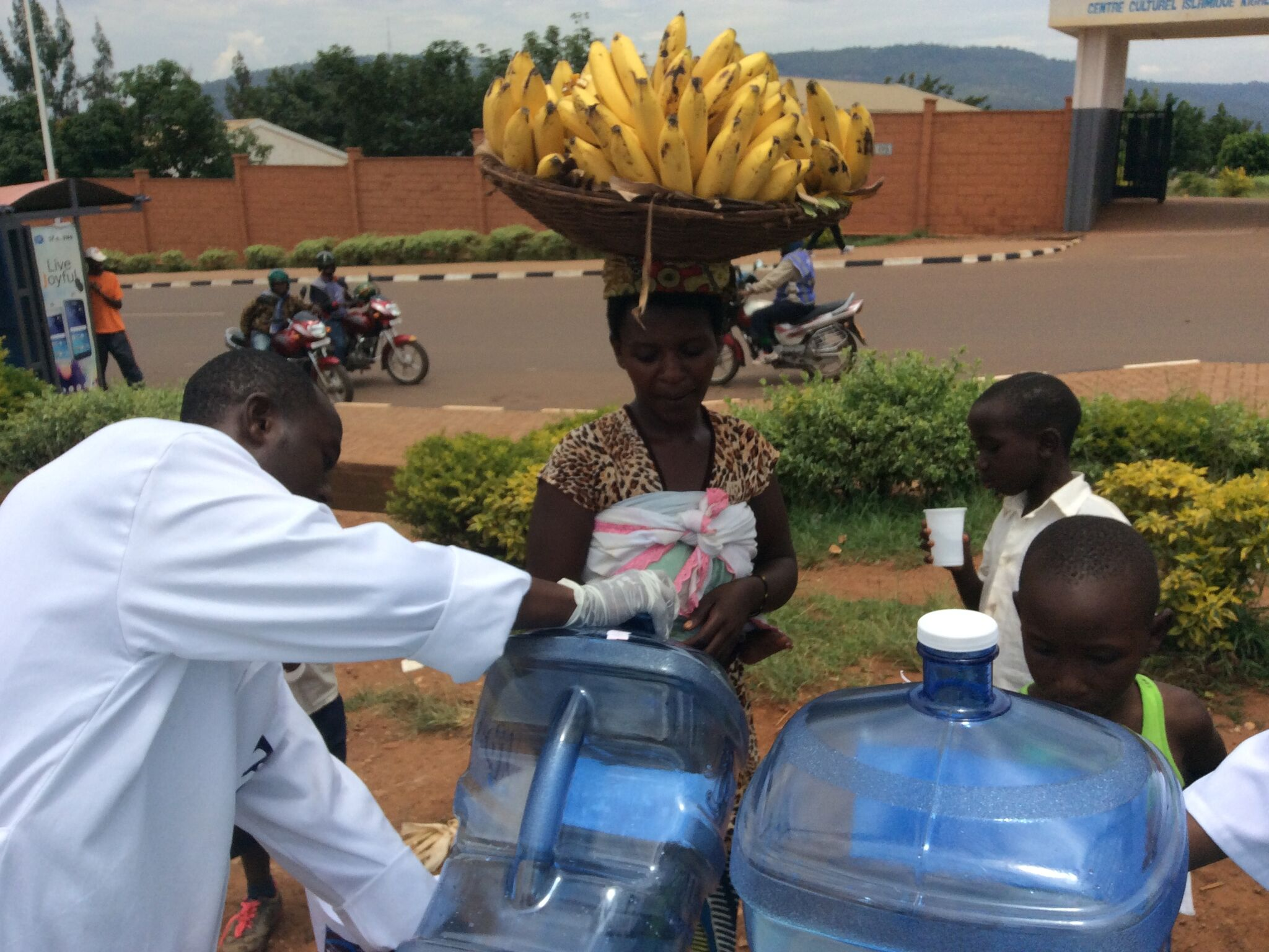 This is an image of "African people at work" from Rwanda